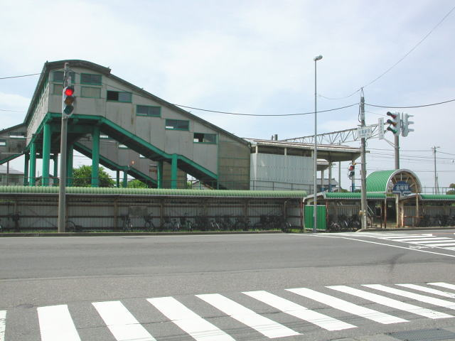 Kanazuka Station in Shibata, Niigata, Japan